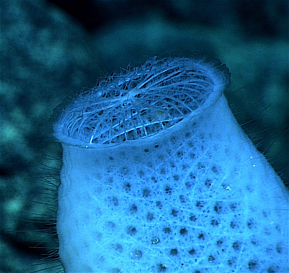 Top of a A Venus flower basket sponge - Euplectella aspergillum. Image ID: expn4384, Voyage To Inner Space - Exploring the Seas With NOAA Collect Location: Hawaii, East Necker Seamount Photo Date: 20150802T213817Z Credit: NOAA Office of Ocean Exploration and Research, 2015 Hohonu Moana